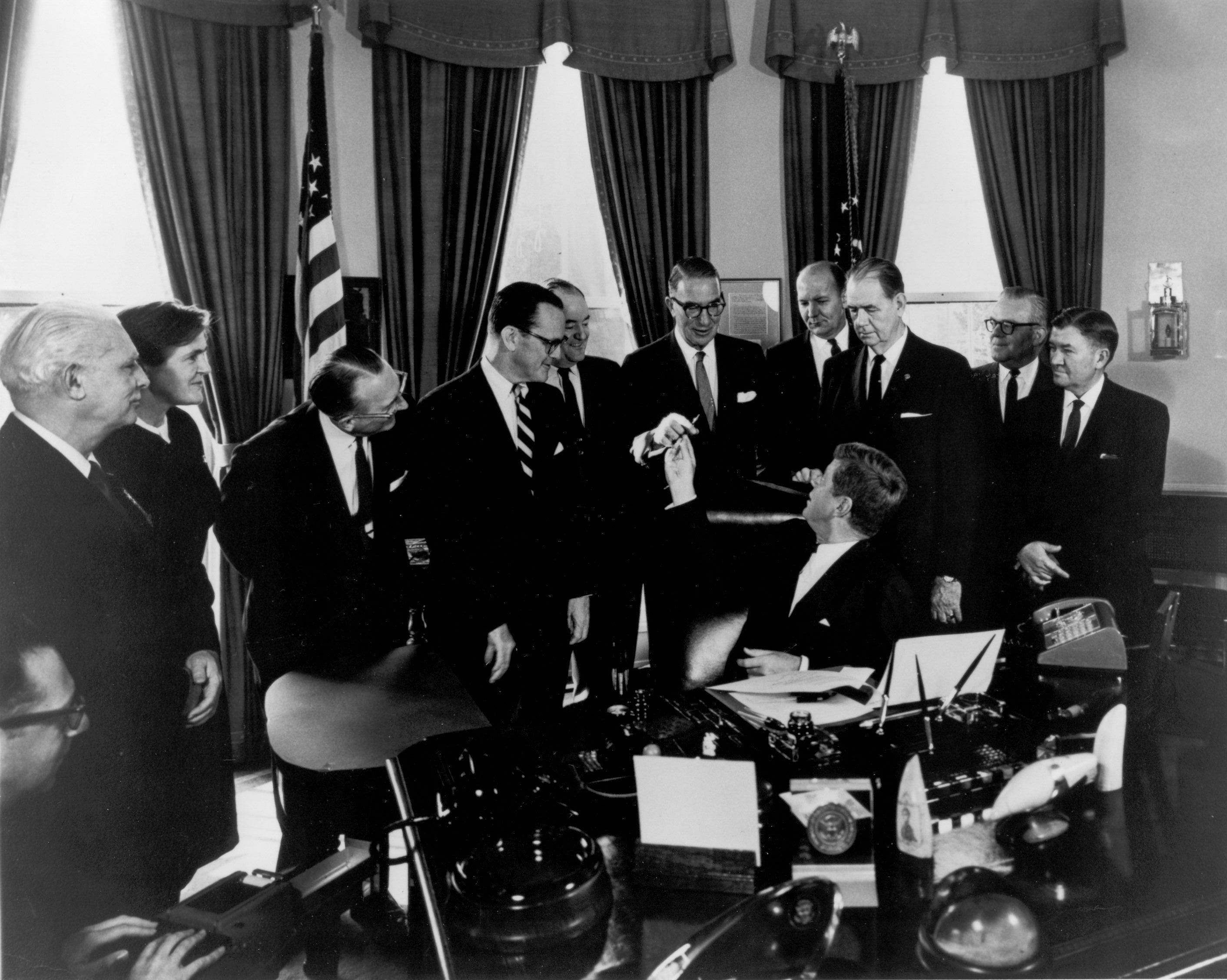 President John F. Kennedy hands Sen. Estes Kefauver the pen he used to sign the 1962 Amendments to the Federal Food, Drug and Cosmetic (FD&C) Act. Those looking on include Frances Kelsey, second from left, the FDA medical officer who refused to approve the new drug application for Kevadon, the brand name for thalidomide in the United States. Following the 1961 thalidomide tragedy in the U.S. President John F. Kennedy signed the 1962 Drug Amendments to the 1938 Food, Drug, and Cosmetic Act. This amendment required that new drugs be approved on the basis of evidence submitted to FDA from pre-marketing clinical studies demonstrating not only safety, but efficacy as well. FDA’s implementation of the new requirement, upheld by the Supreme Court, revolutionized the drug supply of the U.S. in the decades to follow.